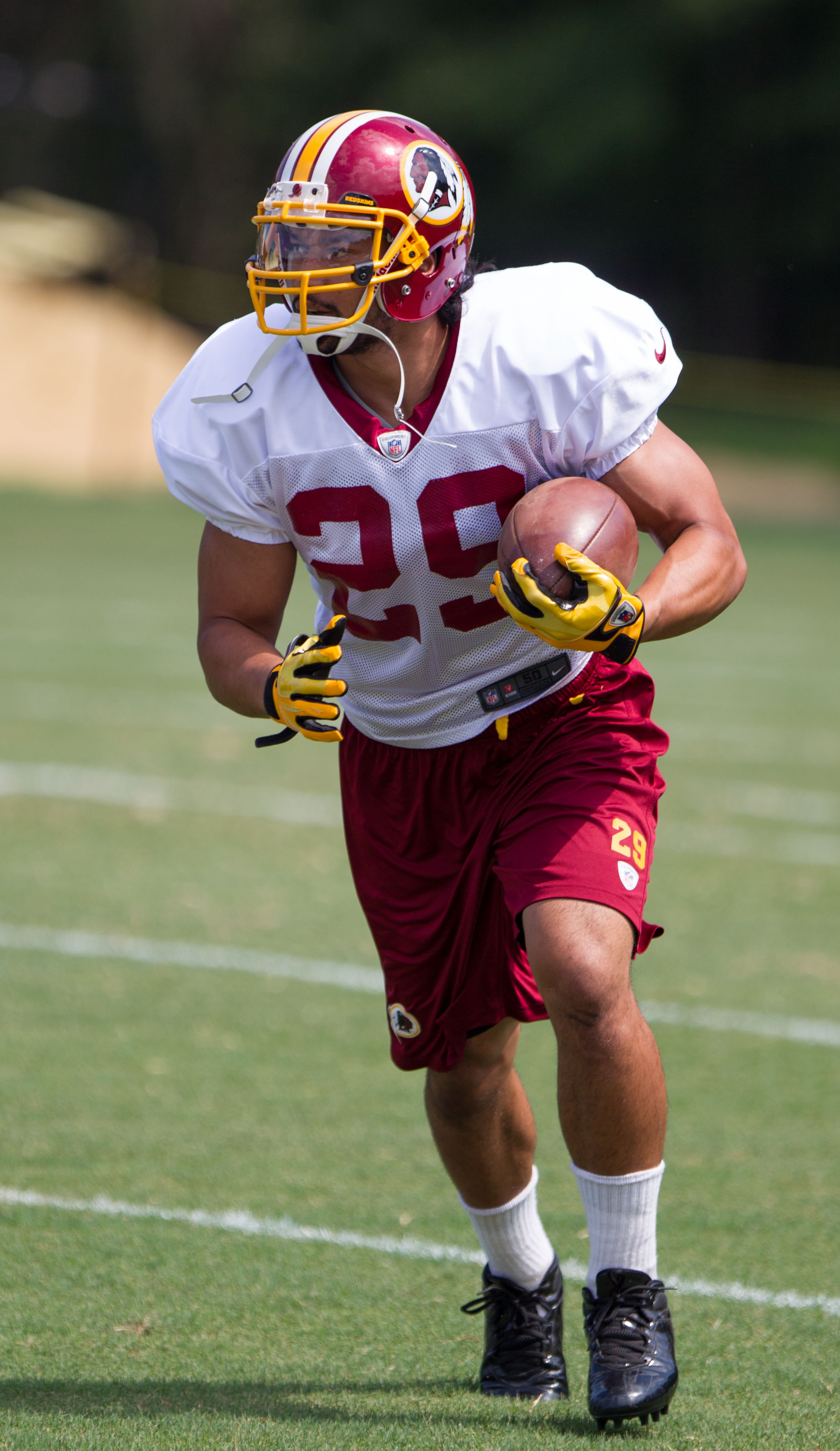 Roy Helu, Jr. at Washington Redskins Training Camp July 31, 2012